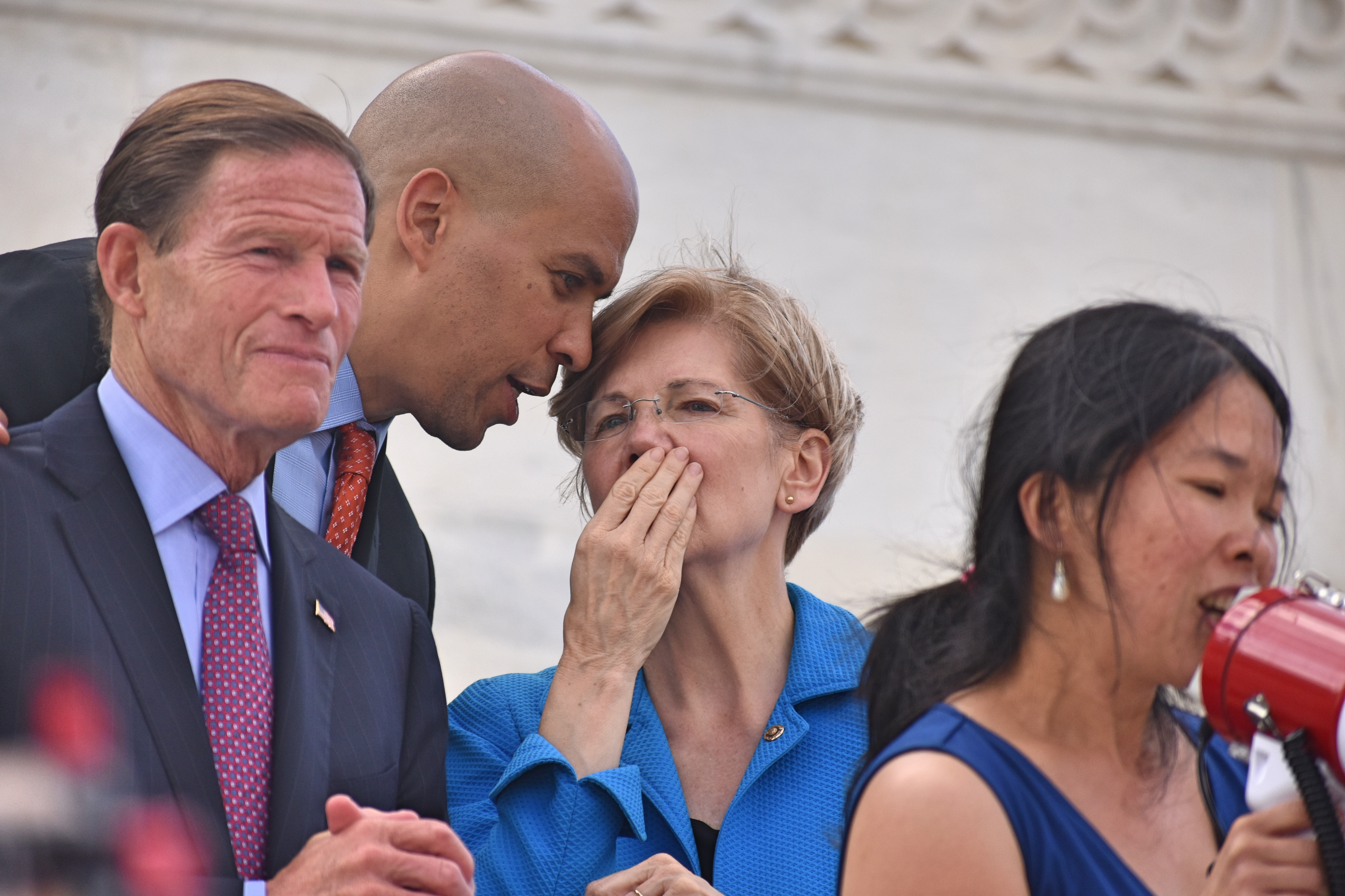 WASHINGTON, DC -- JULY 25 2016: Senators addresses crowds outside the Capitol protesting the GOP health bill.